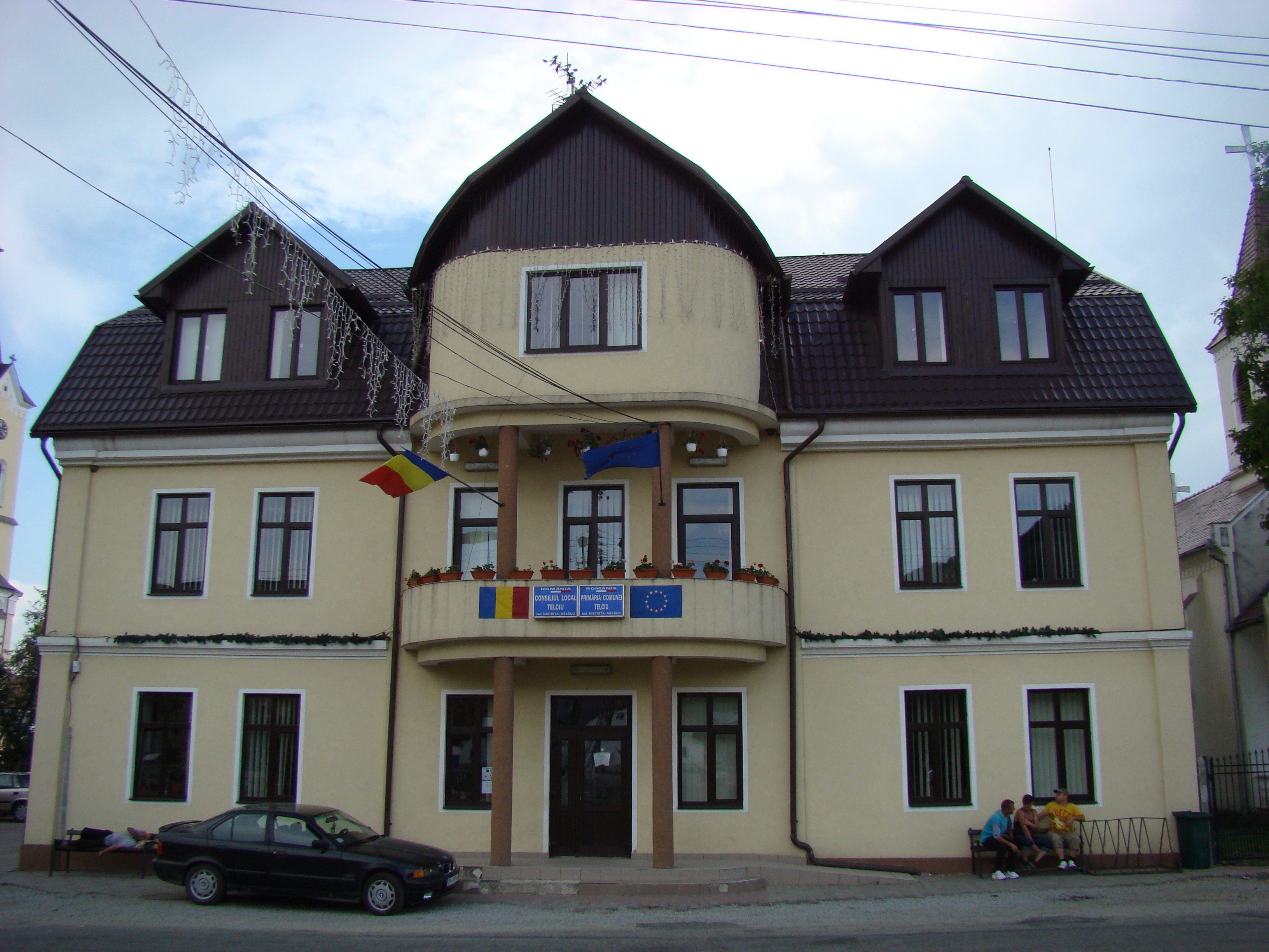 Telciu, Bistrița-Năsăud county, Romania